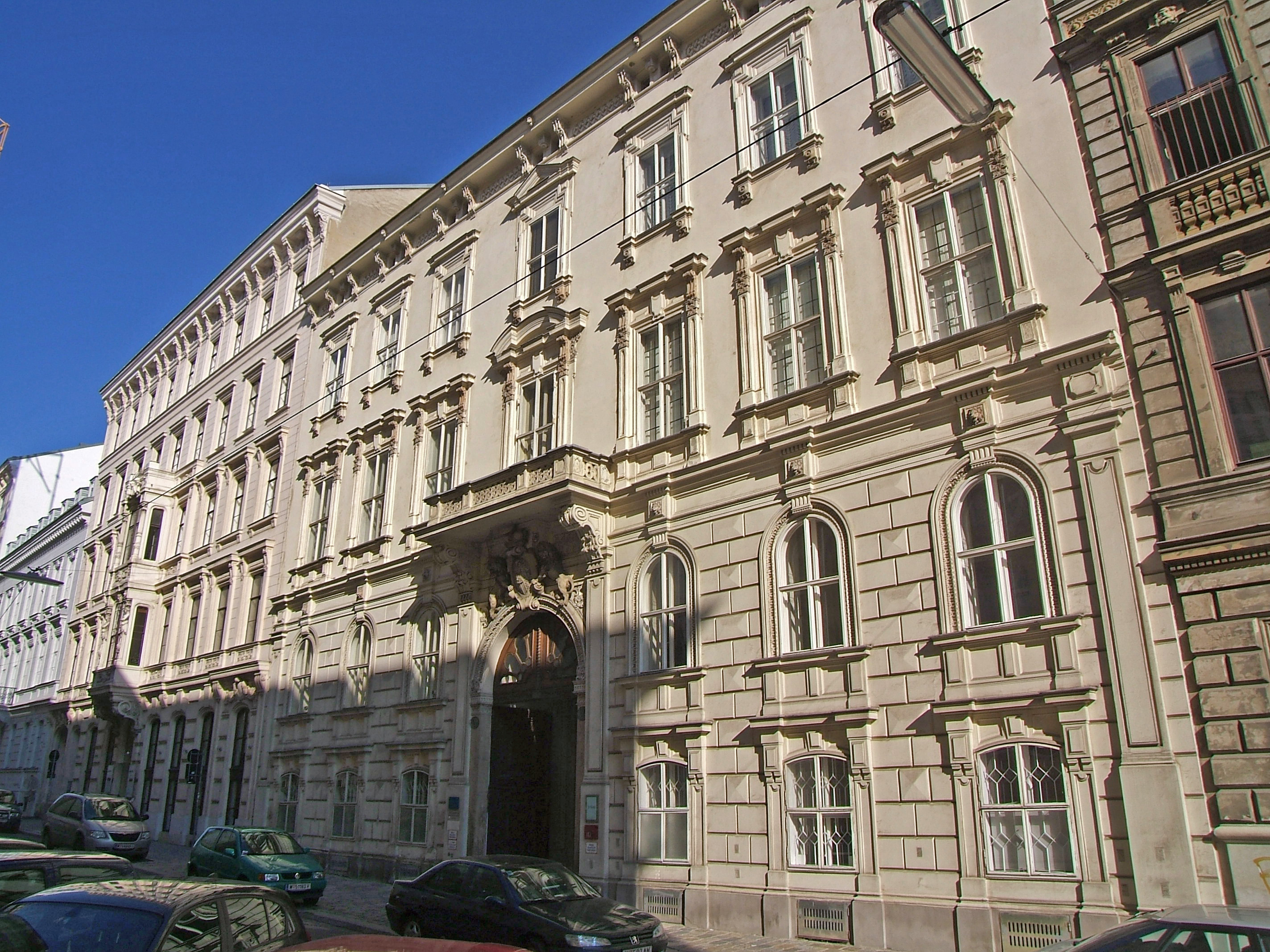 Palais Khevenhüller-Metsch in Vienna 9th district, Türkenstraß 19